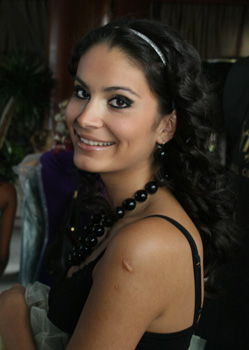 Miss Serbia 2007 Mirjana Božović in Miss World 07, Sanya, China